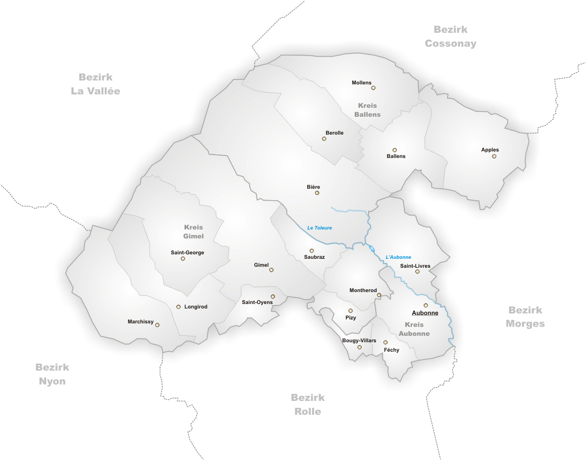 Municipalities of District Aubonne until 2007